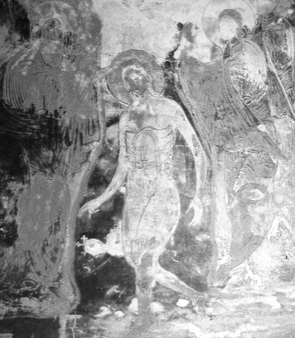 A fresco of "the Baptism" by the Georgian painter Theodore. Ipari Church of Archangel, Svaneti, Georgia